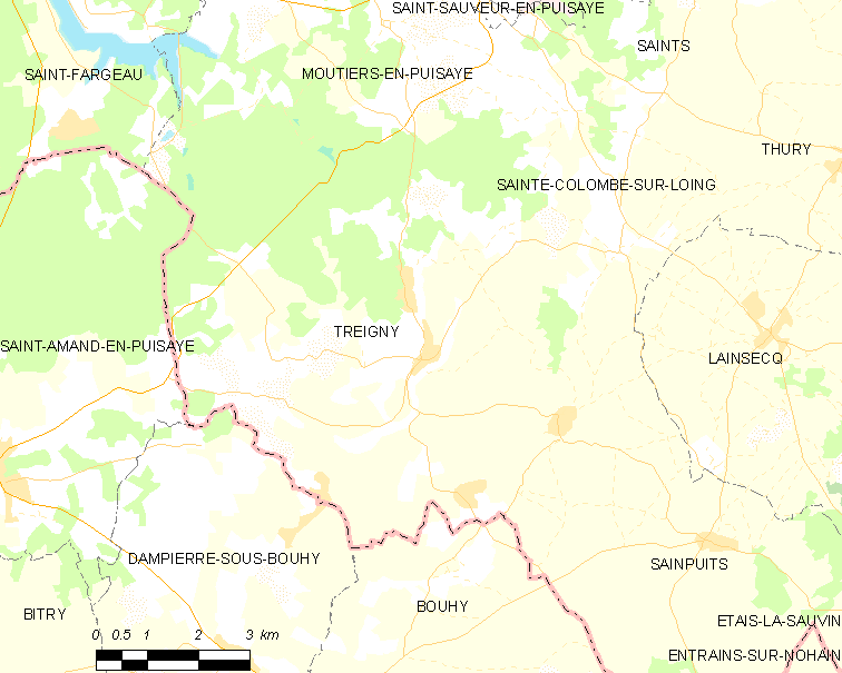 Map of French municipality Treigny